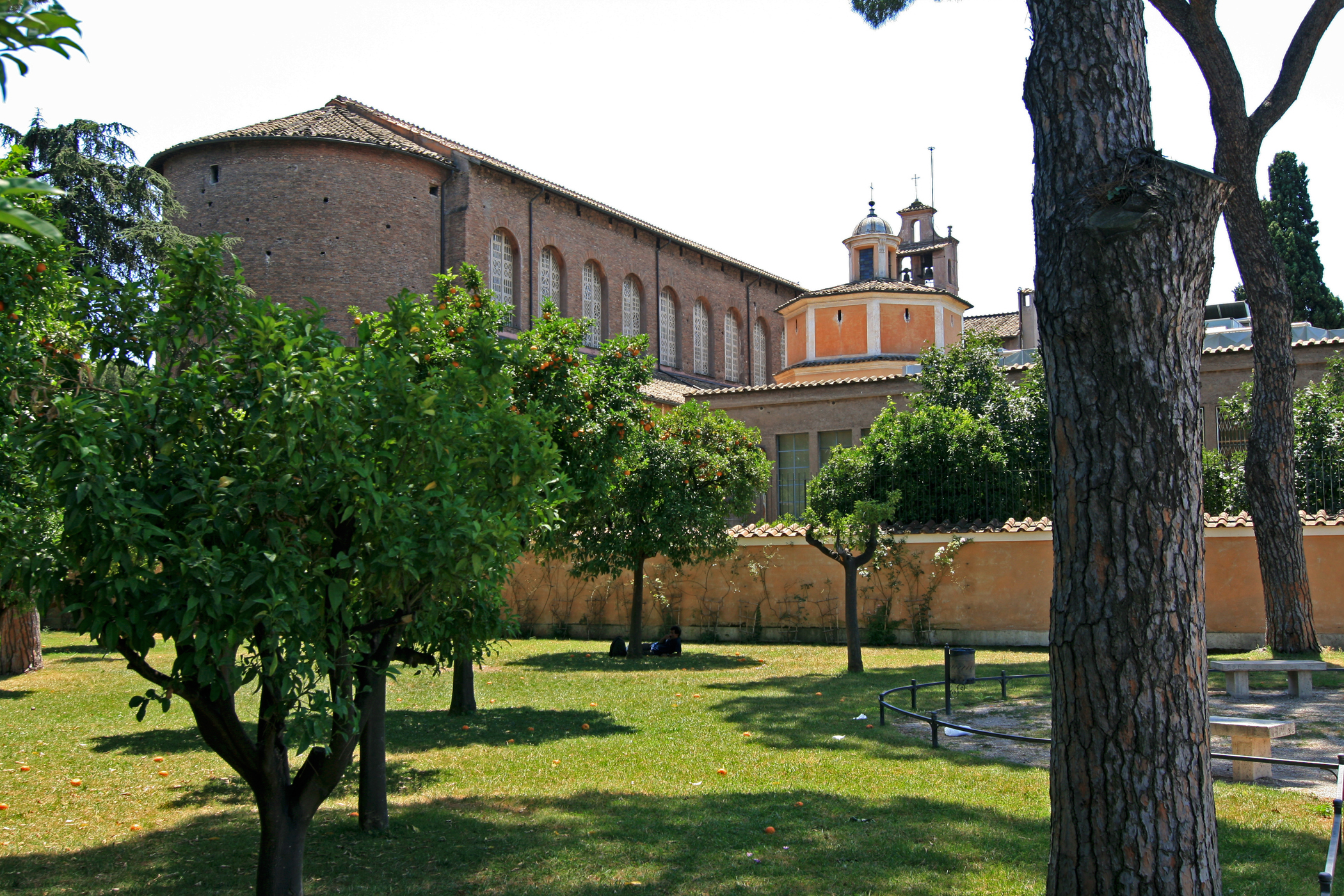 Church of Santa Sabina, Rome.